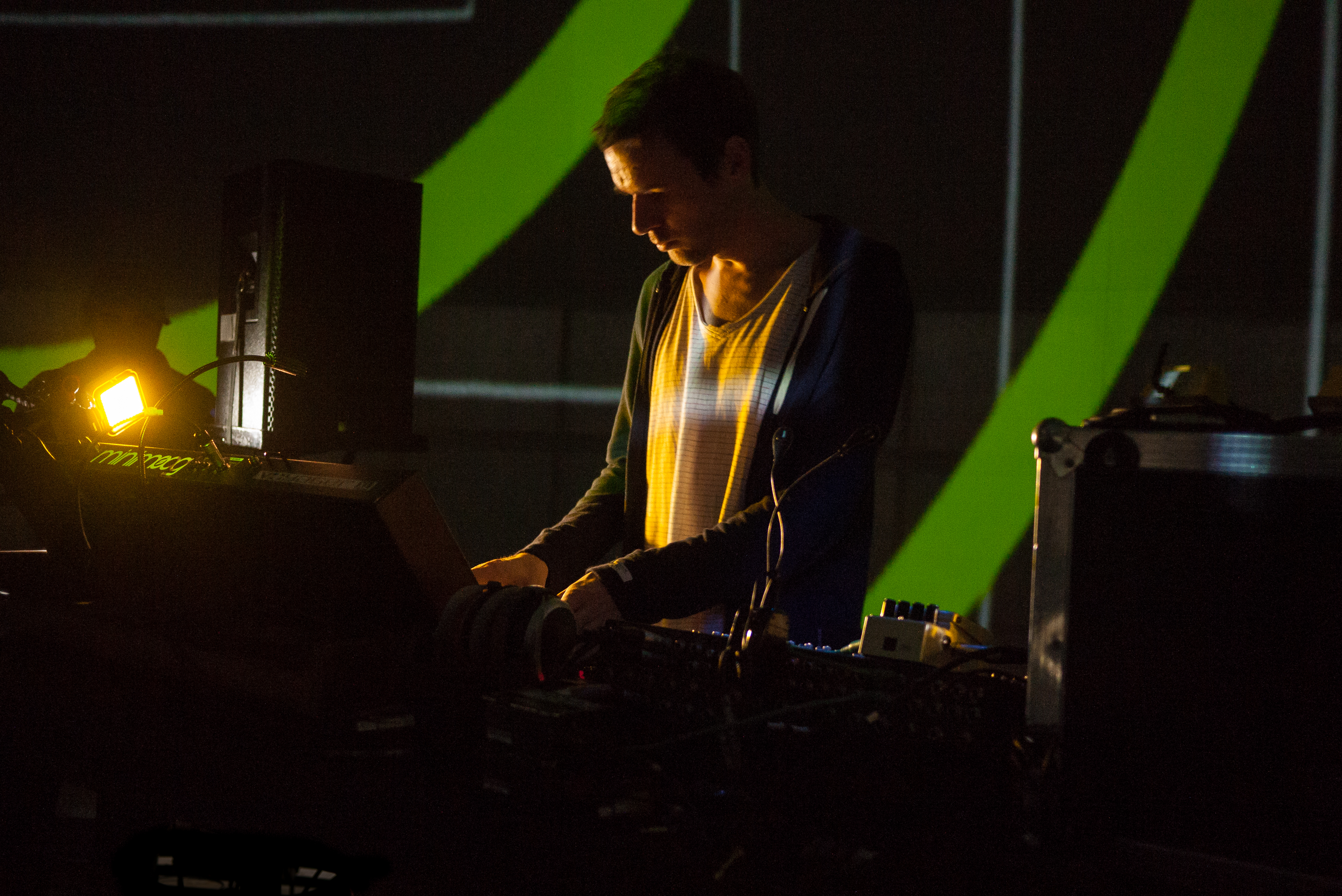 The musician Clark sound checking at Mutek Montreal Festival (June 2012)